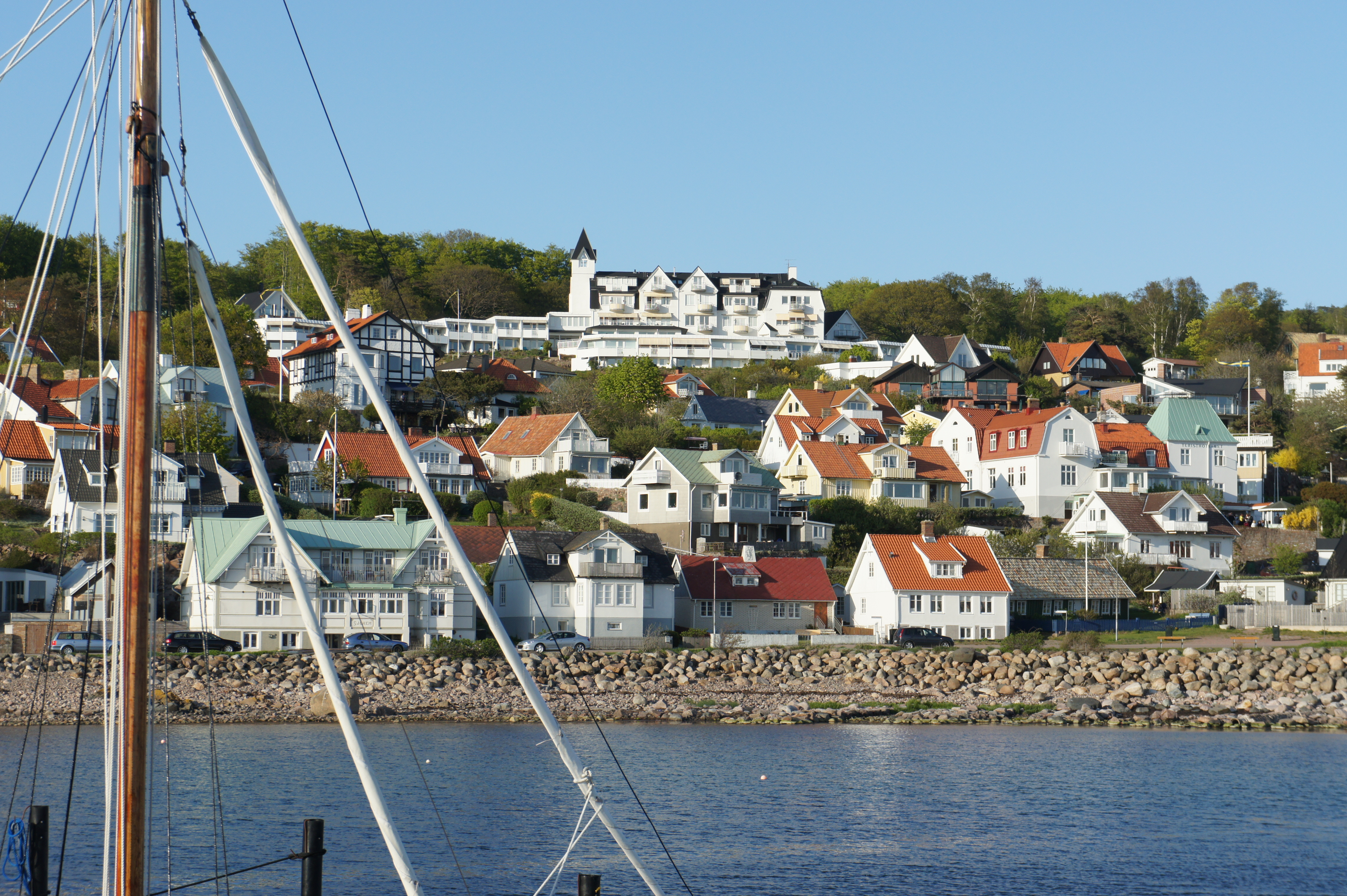 The old Hotel Elfverson, Mölle, now "Bella Vista", a tenant owners' society